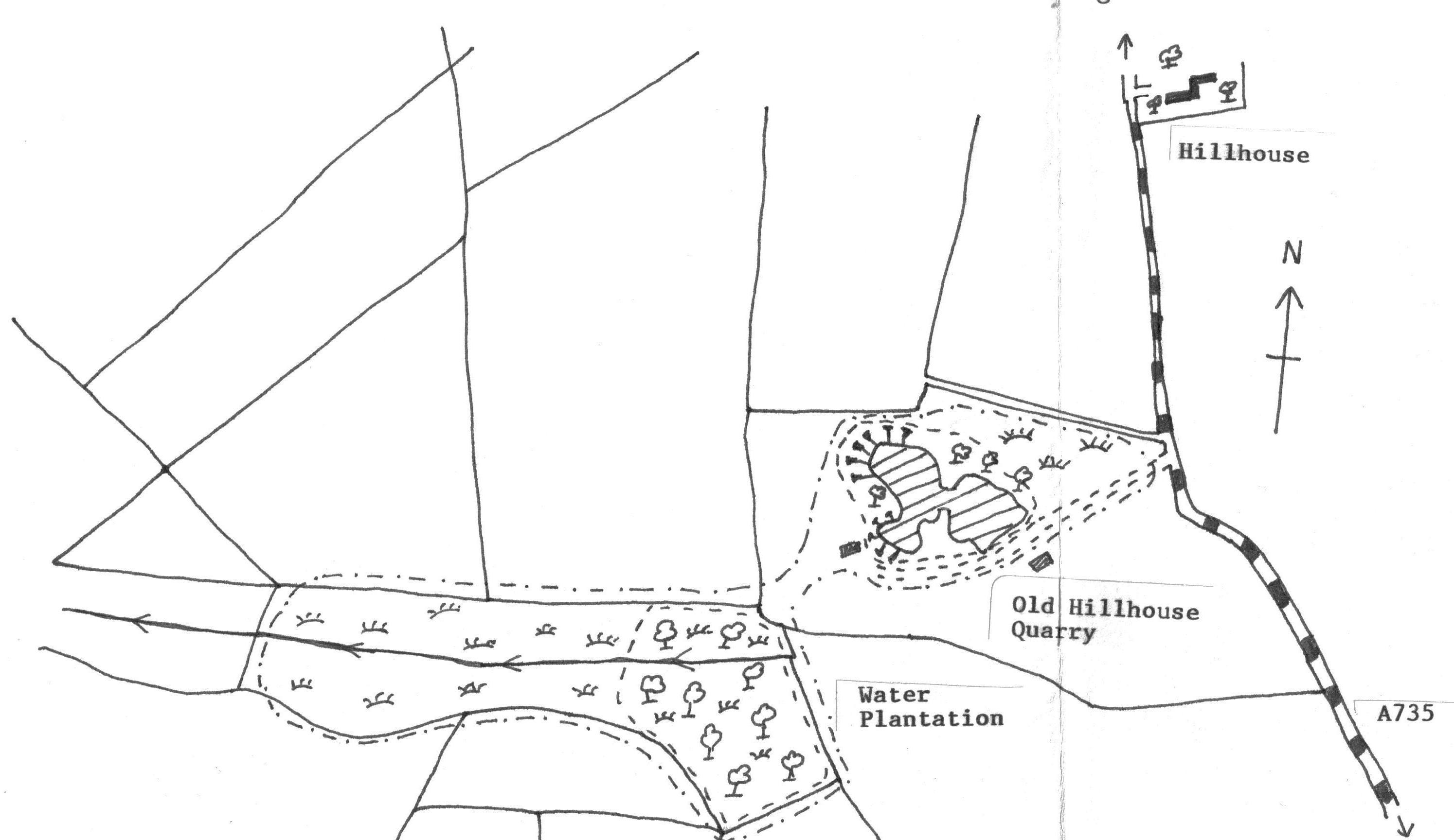 A map of Hillhouse and Water Plantation near Stewarton, East Ayrshire, Scotland.